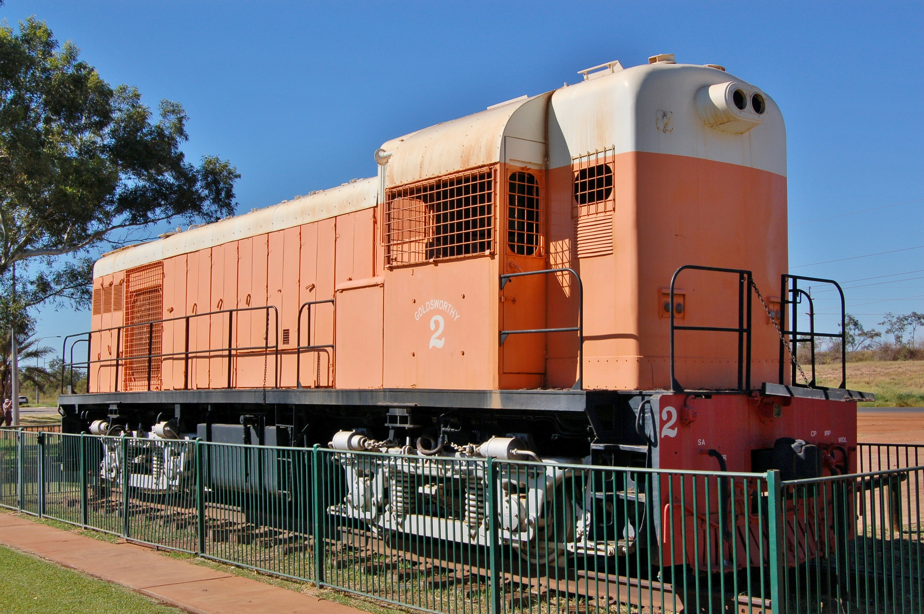 A cab end view of ex-Goldsworthy Mining Ltd English Electric 640kW Bo-Bo diesel-electric loco no. 2, at the Don Rhodes Mining and Transport Museum, Wilson Street, Port Hedland, Western Australia. This locomotive was manufactured in 1965 by English Electric Co of Australia in Rocklea, Queensland. Together with sister locomotive no 1, it arrived in Port Hedland in December 1965 aboard the freighter I G Nicholson. The two locomotives were too heavy to unload at the jetty, and therefore Utah Dredgings' 76.2 ton lift derrick barge was used to off-load them instead. Both locomotives were then involved in the construction of the Goldsworthy railway between Mt Goldsworthy and Finucane Island. On 25 May 1966, locomotive no 2 hauled the first ore train from Mt Goldsworthy to Finucane Island. The train consisted of 21 wagons, each carrying 74 tonnes of iron ore. (Source: the plaque adjacent to the exhibit.)